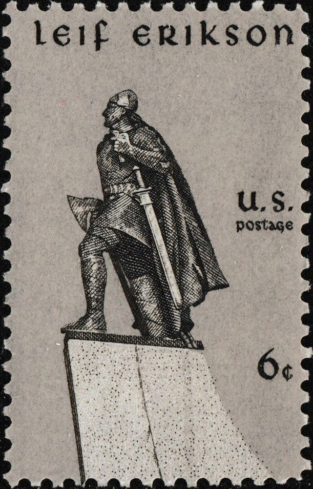 Leifr Eiríksson the 1000s Norse explorer was honored with a 6-cent stamp — Leif Erikson Day. The stamp was inspired by the Alexander Stirling Calder statue of Leifur Eiríksson in Reykjavic, Iceland.